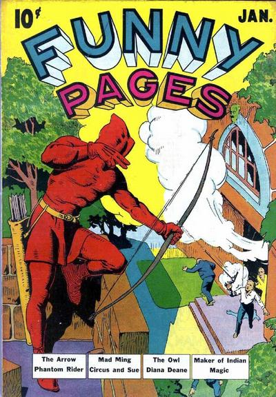 Cover to Funny Pages vol 4, #1 (January 1940), published by Centaur Publications. Art by Paul Gustavson.